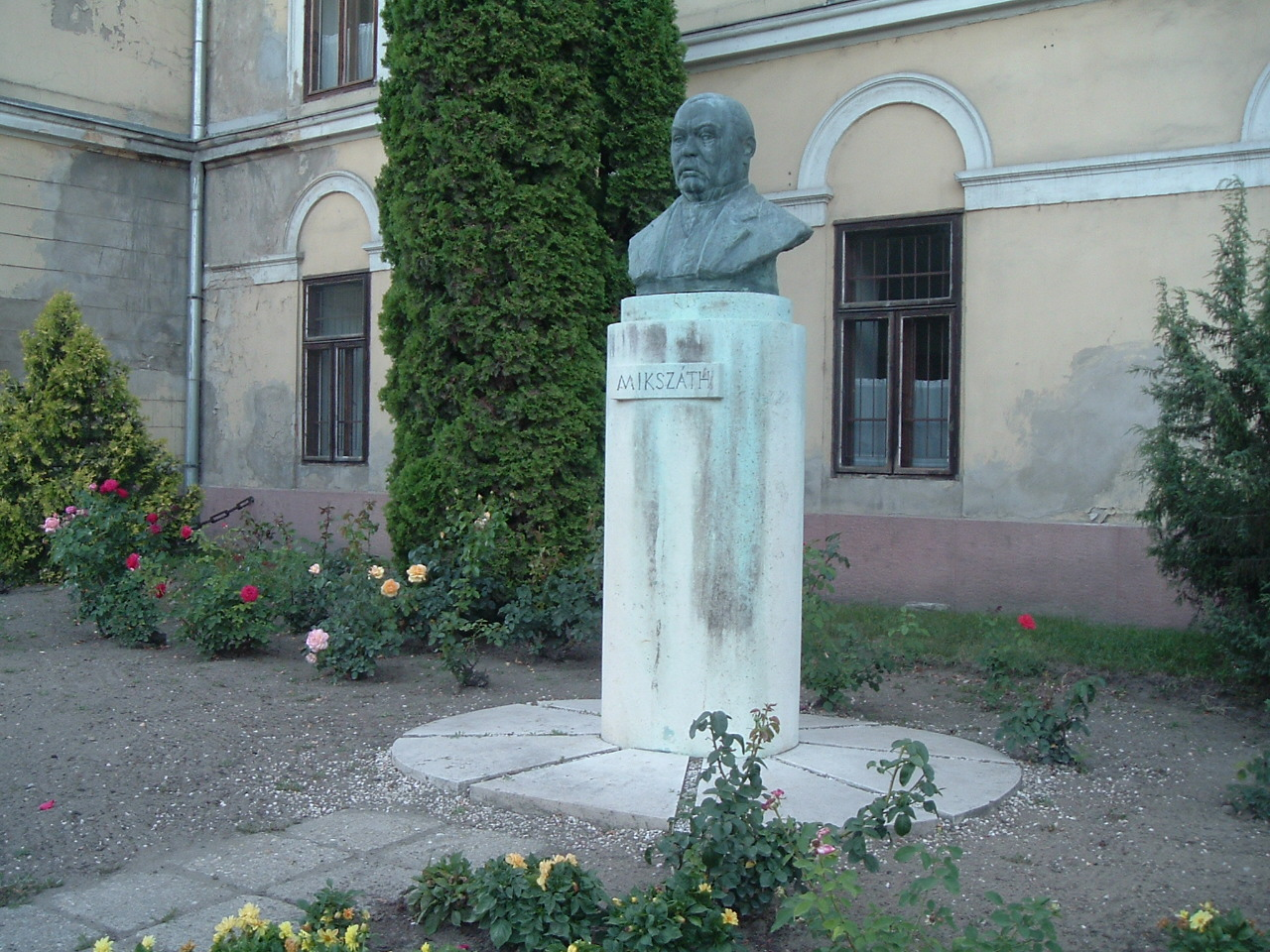 Balassagyarmat, Mikszáth statue in front of the old County Hall